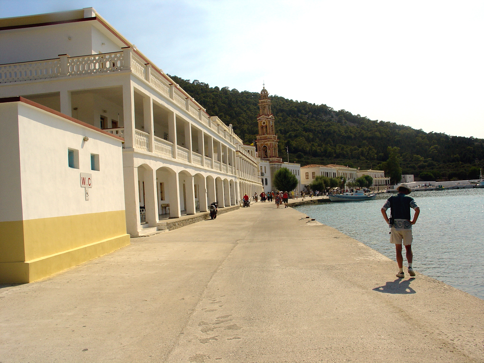 Monastery Panormitis on Simi island, Greece klášter Panormitis na ostrově Simi, Řecko photo August 2007 Author= Karelj